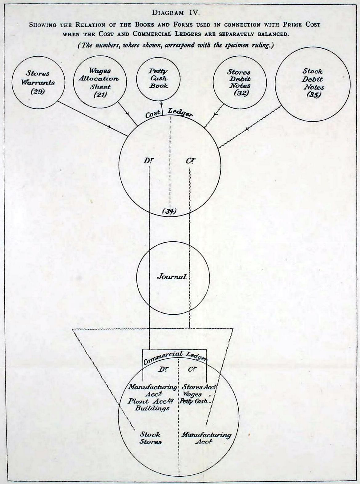 Diagram III Showing the relation of the Books and Forms used in connection with Prime Cost (from 1922 edition)